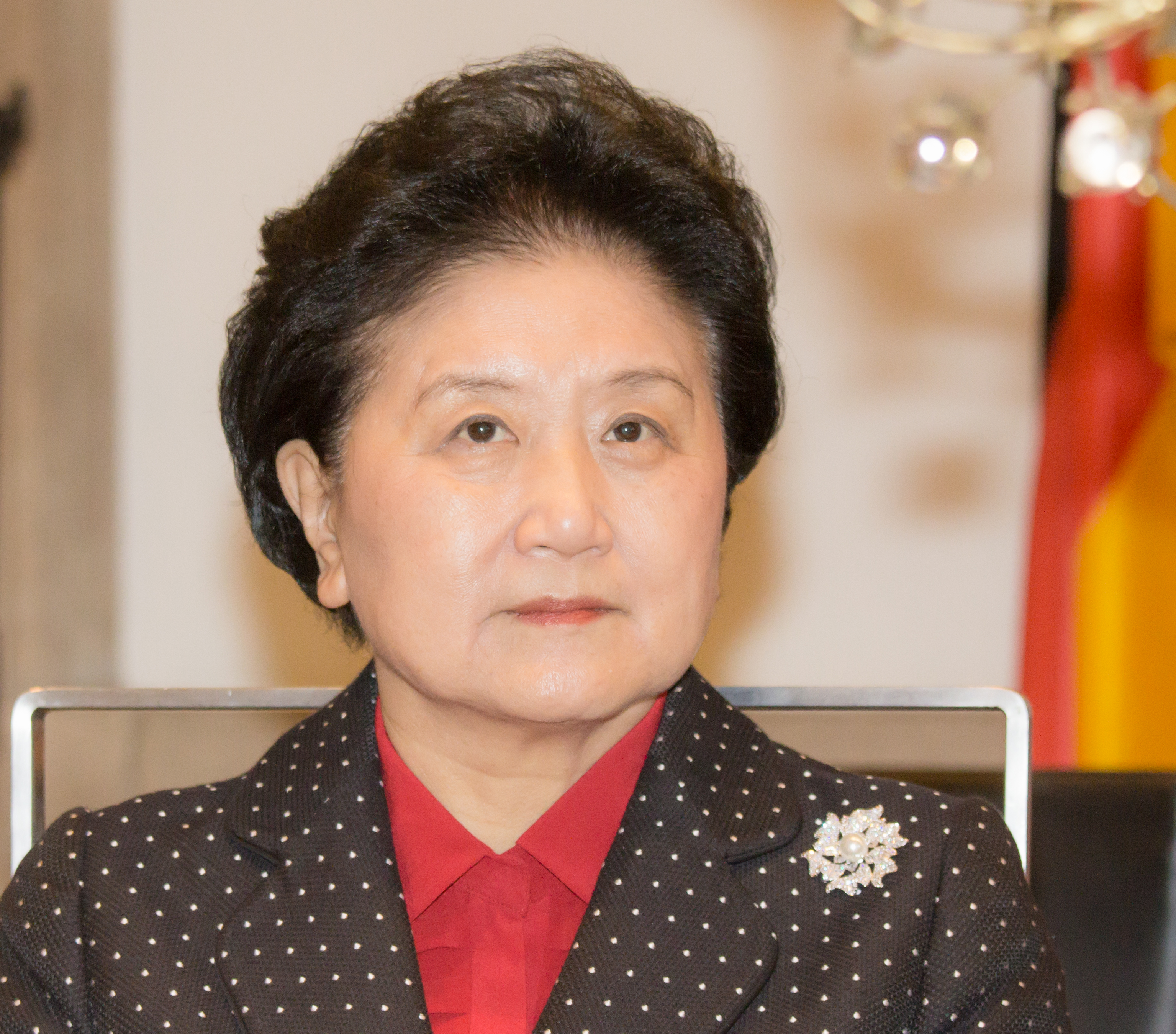 Liu Yandong, Vice Premier of the People's Republic of China. Reception in the Cologne town hall for her and her delegation.